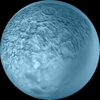 The map of Umbriel. Blue color is artificial.